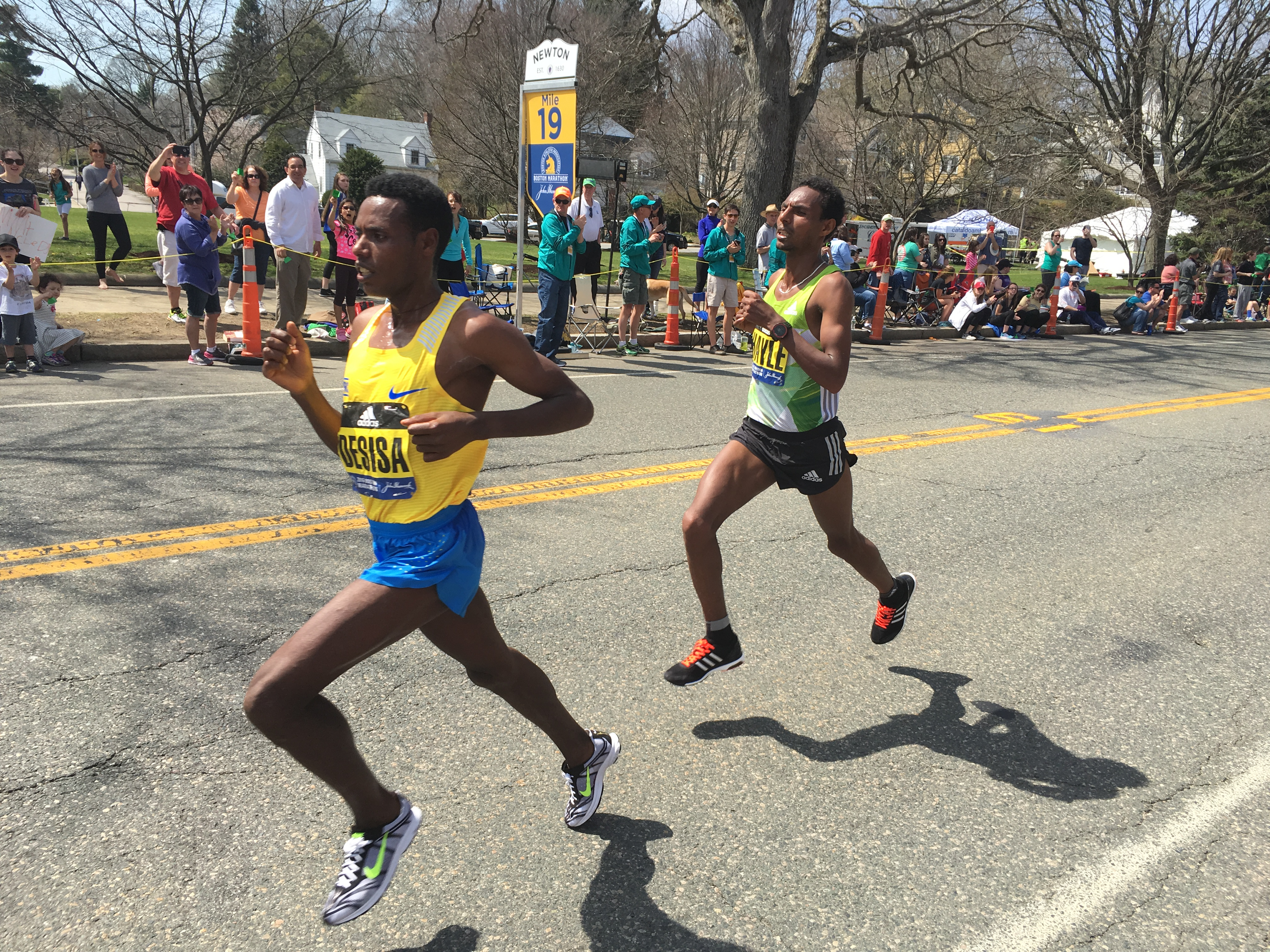 Lelisa Desisa leads Lemi Berhanu Hayle as they are the first men to pass mile 19 in Newton, Massachusetts during the w:2016 Boston Marathon. Hayle went on to win the elite men's division; Desisa came in second.